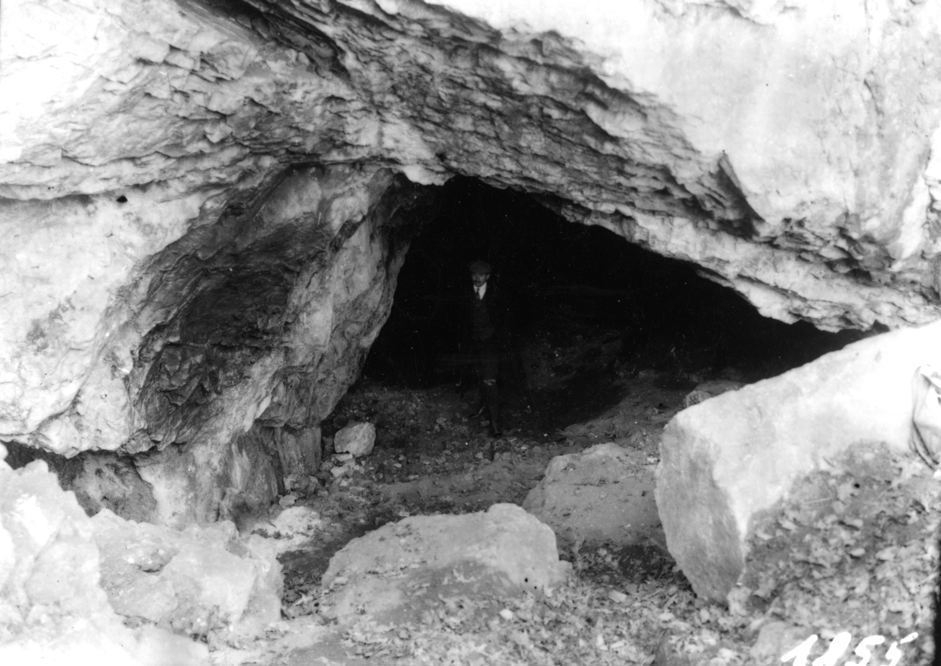 Násznép Cave.